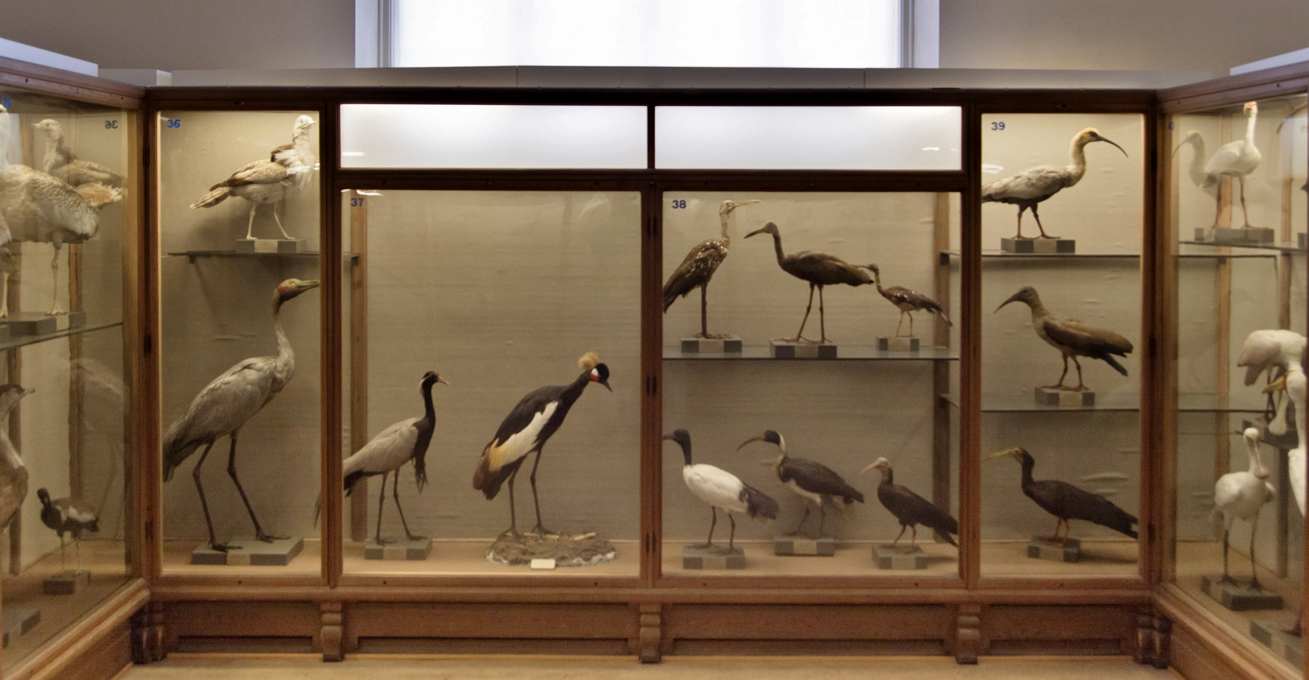 Dated exhibits in Gothenburg's Museum of Natural History.